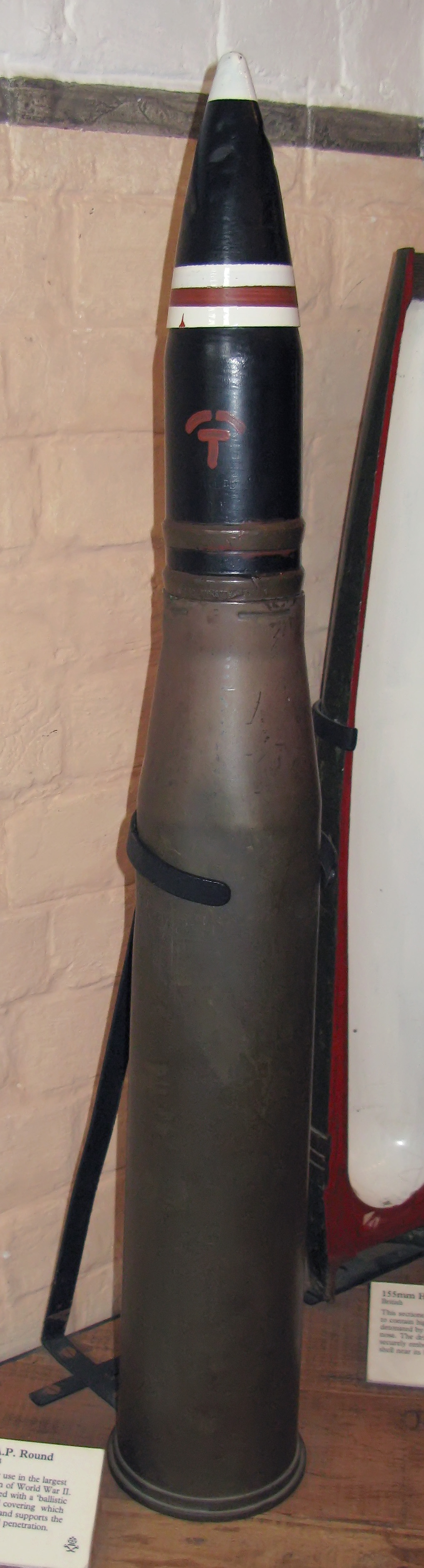 The cartridge and shell of a British 17 pounder gun, displayed at Royal Armouries, Fort Nelson, UK.